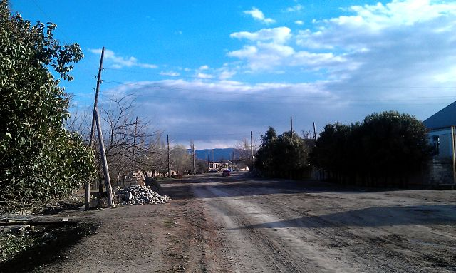 Dallyar Jirdakhan village street